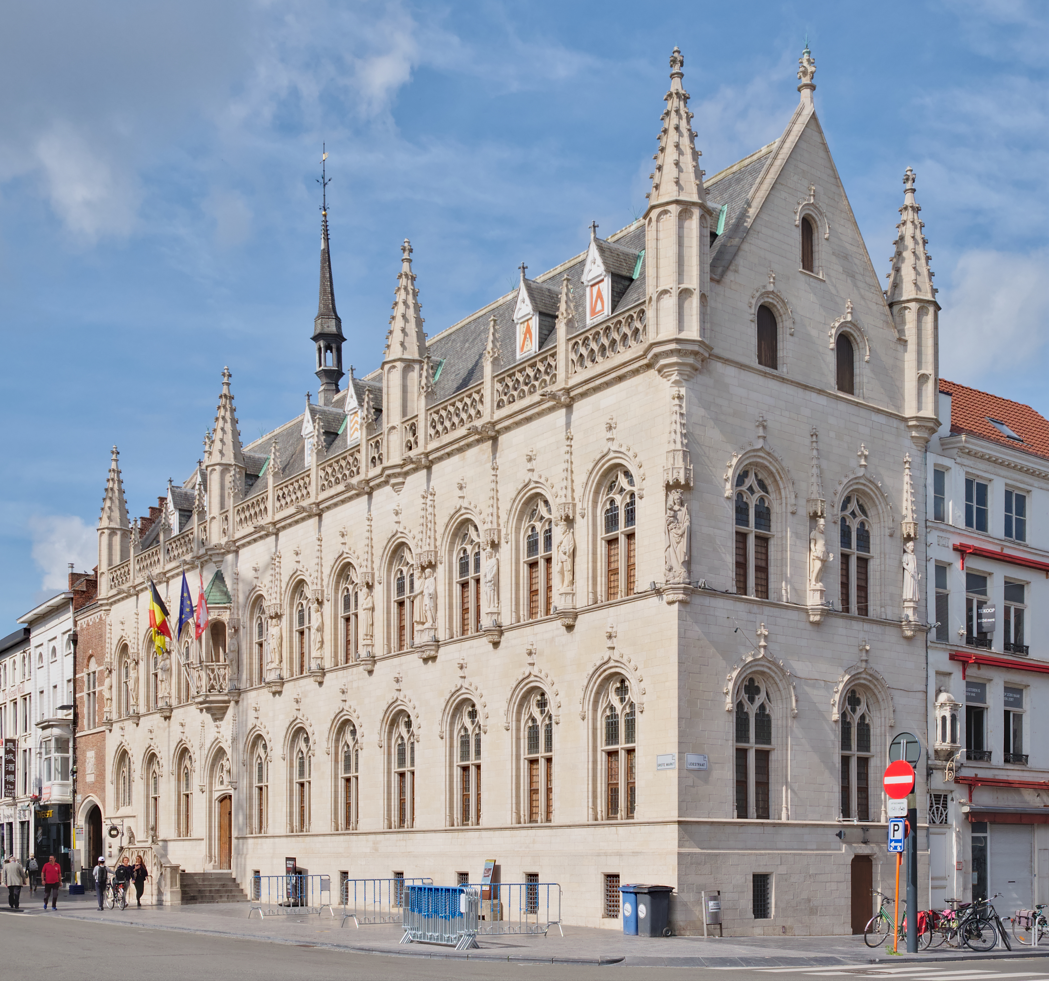 Town hall of Kortrijk This photo of immovable heritage has been taken in the Flemish Region